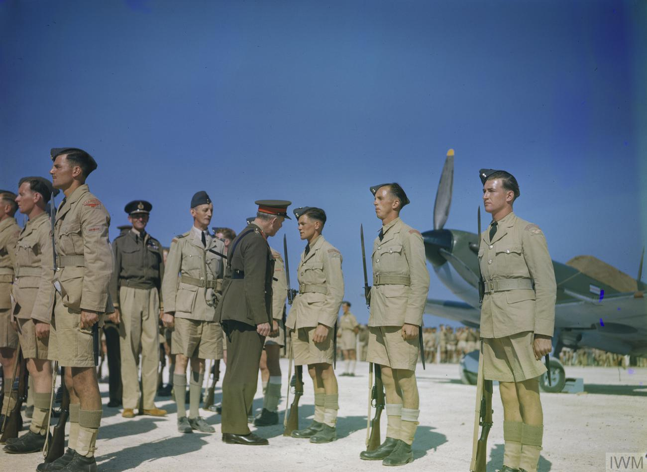 The Royal Air Force in Malta, May 1943 Lord Gort, Governor of Malta (with his back to the camera) inspecting the Guard of Honour of the Royal Air Force Regiment when he opened Malta's new aerodrome at Safi. On the left is AOC Malta, Air Vice Marshal Keith Park, KBE.